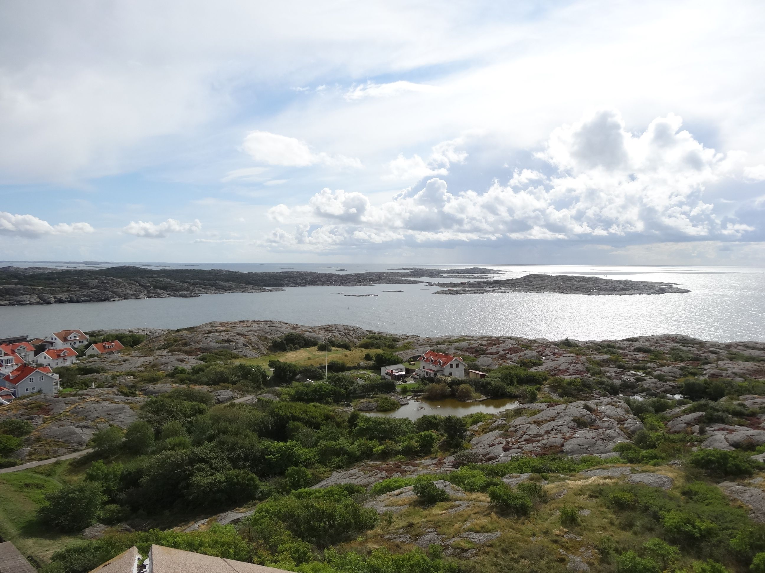 View from Karlsten fortress in Marstrand, Sweden, towards southwest and the southern entrance to Marstrand harbour.